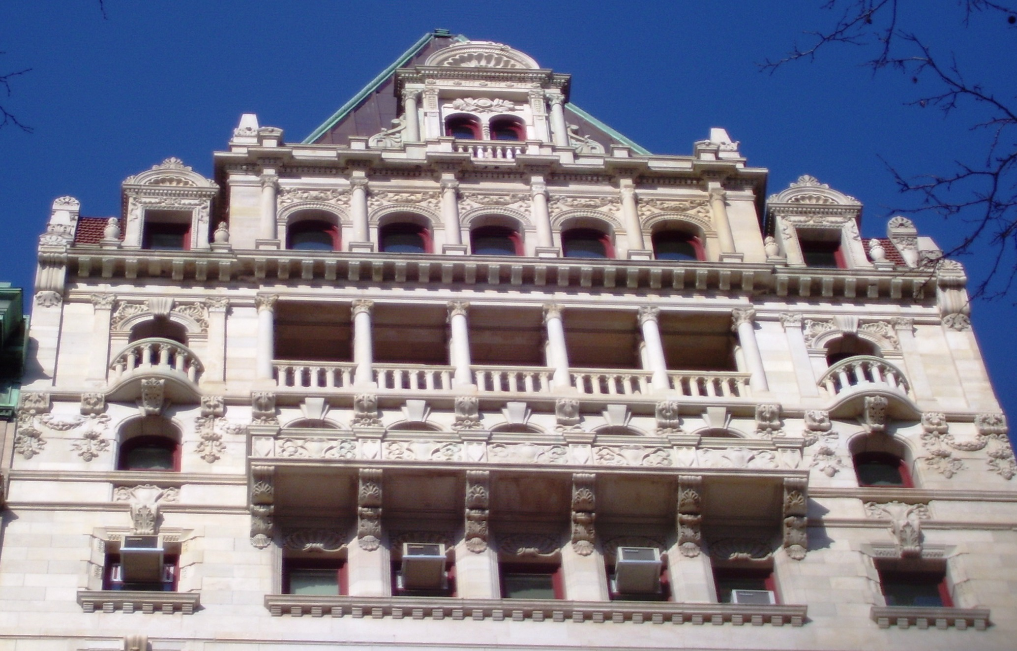 The Home Life Insurance Company Building at 256-257 Broadway between Murray and Warren Streets in the Tribeca neighborhood of Manhattan, New York City was built in 1892-94 and was designed by the firm of Napoleon LeBrun & Sons, with Pierre LeBrun the architect in charge. The company was founded in Brooklyn in 1860, the first insurance company to be authorized by the New York Insurance Department. They opened a branch at this location in 1866. The new building came about as the result of a design competition, which Le Brun won with this 16-story Renaissance Revival building, one of the earliest steel-framed buildings in New York. The building, the exterior of which is marble, was one of the tallest in the world when it was completed. In 1947, Home bought the building next door – the Postal Telegraph Building, originally constructed in 1892-94 for a Western Union competitor and designed by Harding & Gooch – as an annex, and connected the buildings together internally. The two-building complex was designated a NYC landmark in 1991. (Source: Guide to NYC Landmarks (4th ed.) and AIA Guide to NYC (4th ed.))